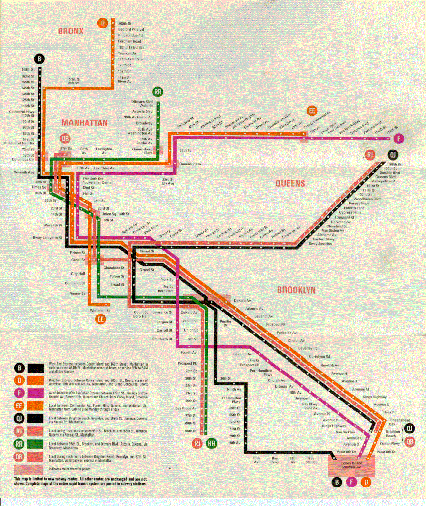 This is a map of the service changes that were part of the Chrystie Street Connection that took place in November 1967. This was part of a brochure.